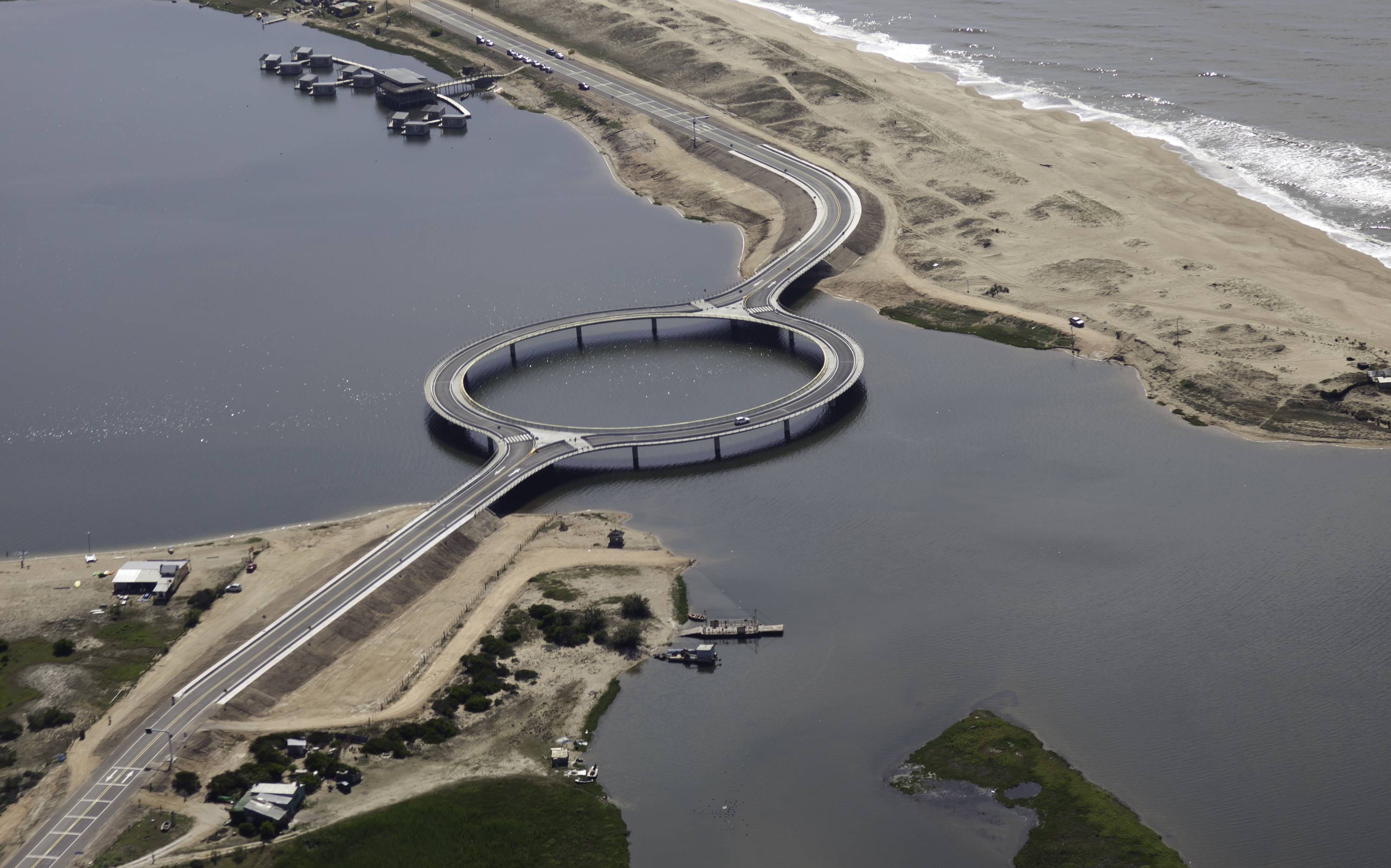 This is the first bridge designed by architect Rafel Viñoly, who was also designer of the Jazz Lincoln Center in New York and Princeton University Stadium amongst numerous projects. It is iconic, unique in its circular design and ecological in its attention to the environment above, around and beneath it. Speed limits keep noise and pollution to a minimum and its height allows the continued safe passage of fish and fishing boats. Maldonado - Rocha, Uruguay. Camera: Canon EOS 5D Mark II Lens: Zeiss Makro-Planar T* 2/100 ZE 5 ISO: 100